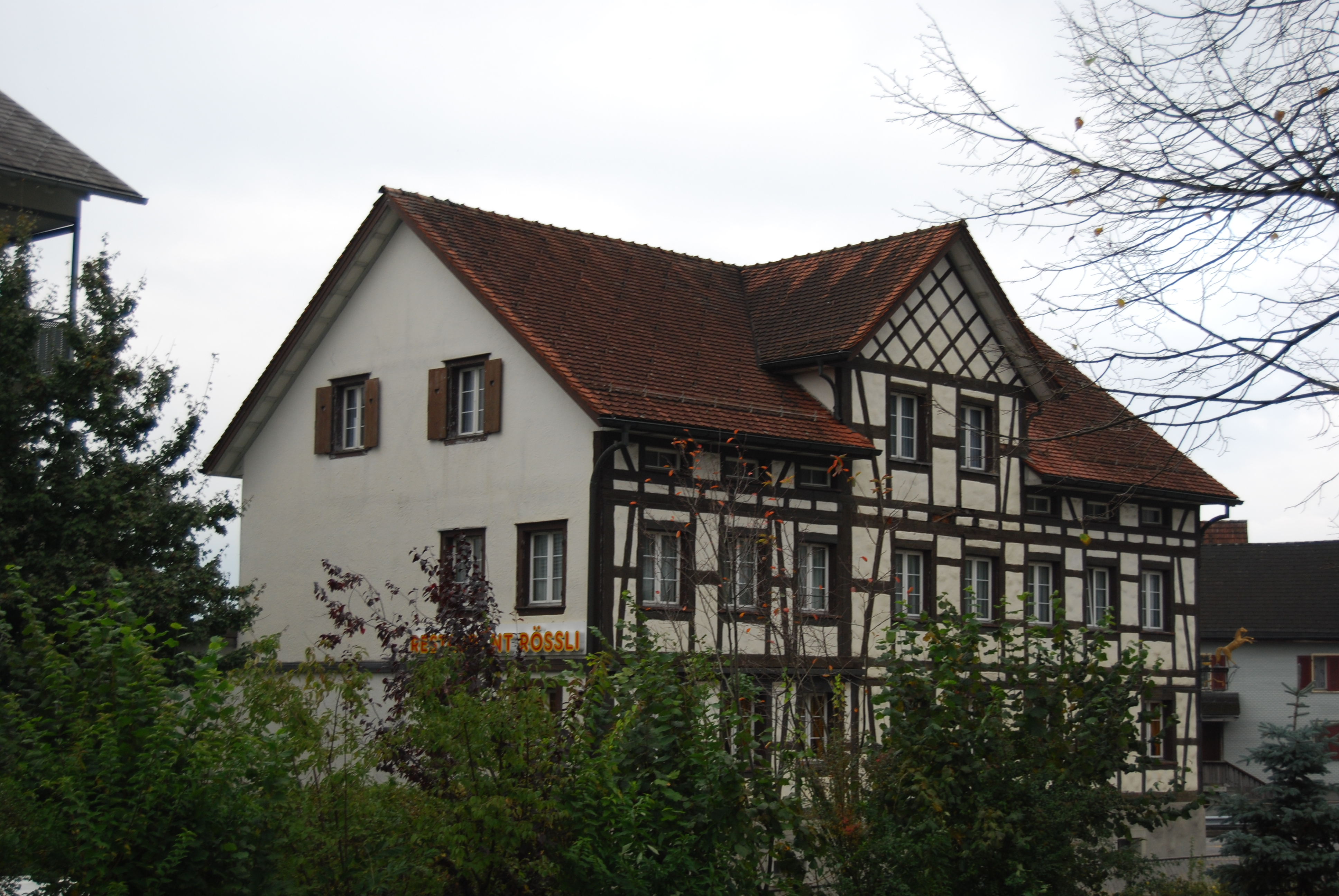 Restaurant Rössli, Timber framing house at Reichenburg, canton of Schwyz, SwitzerlandEsperanto: Restoracio Rössli, Faktrabdomo en Reichenburg, Kantono Ŝvico, Svislando